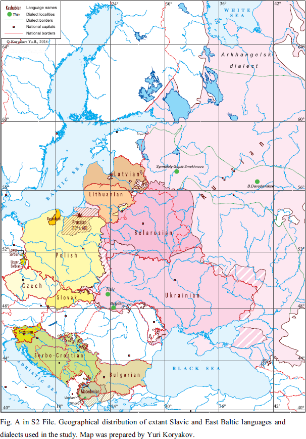 Ethnic map Belorussian, Bulgarian, Czech, Kashubian, Lithuanian, Latvian, Macedonian, Polish, Serbo-Croatian, Slovak, Slovenian, Sorbian, Ukrainian